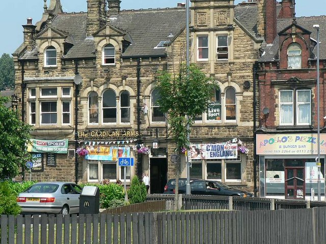 The Cardigan Arms, Kirkstall Road, Leeds. Still well decorated with England flags, 3 days after England was knocked out of the 2006 World Cup.